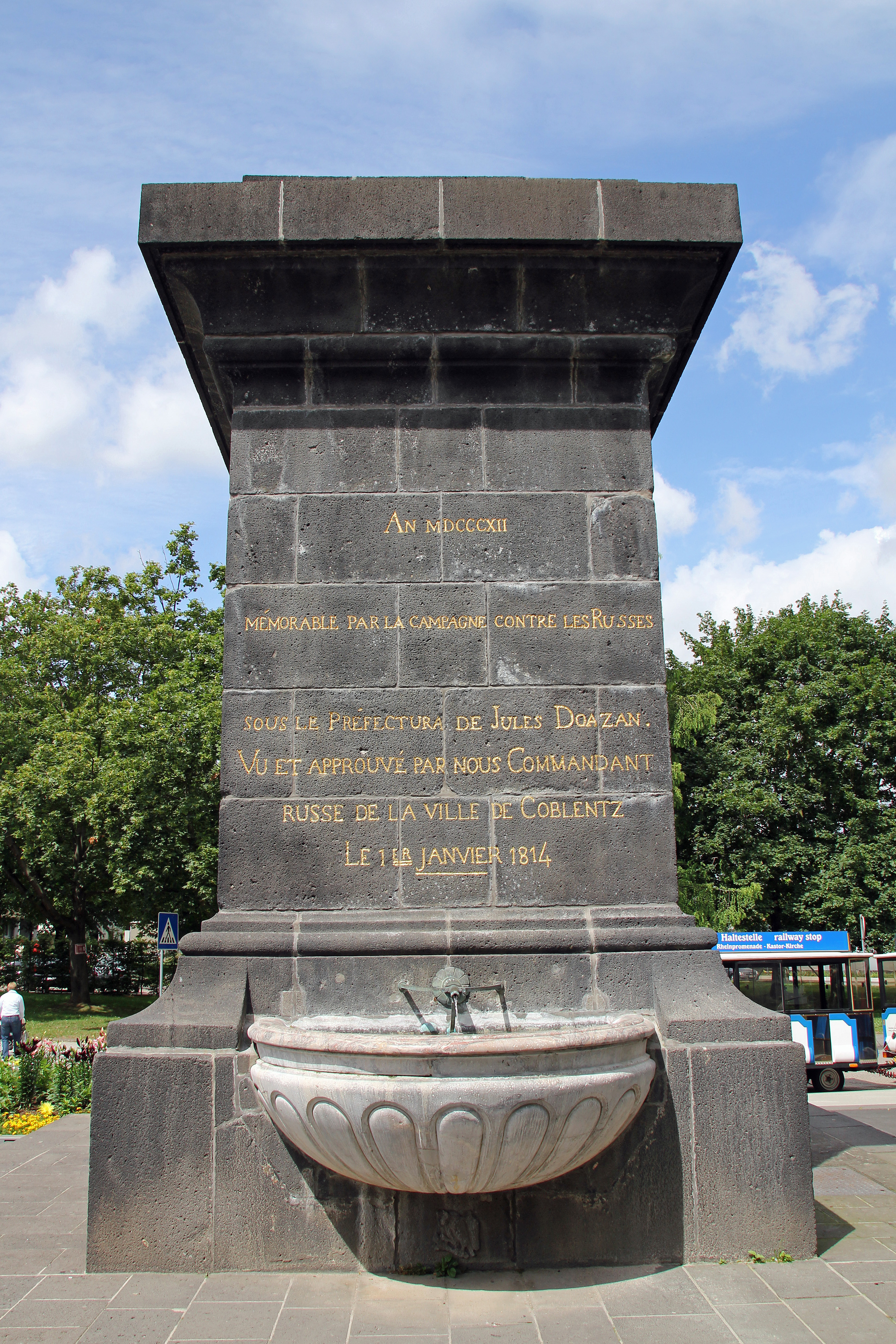 Castor-Fountain nearby the Basilica St. Castor in Koblenz